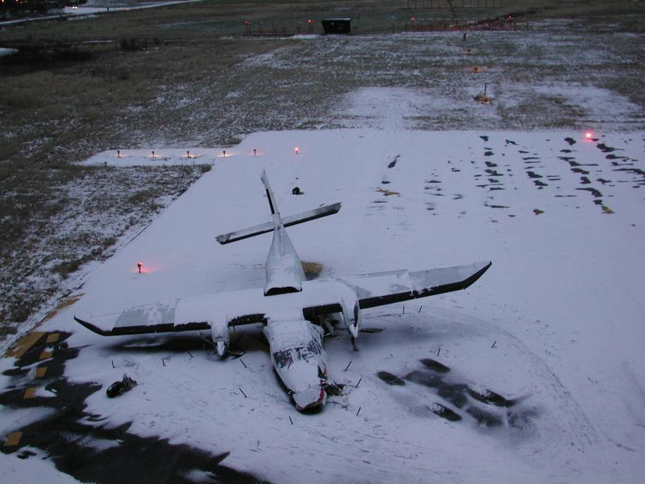 Kato Air LN-HTA after crash landing